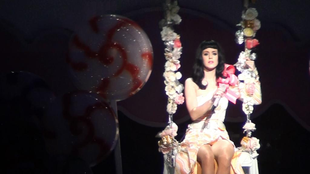 Performance by Katy Perry for the song "Not Like the Movies" in her world tour California Dreams Tour.